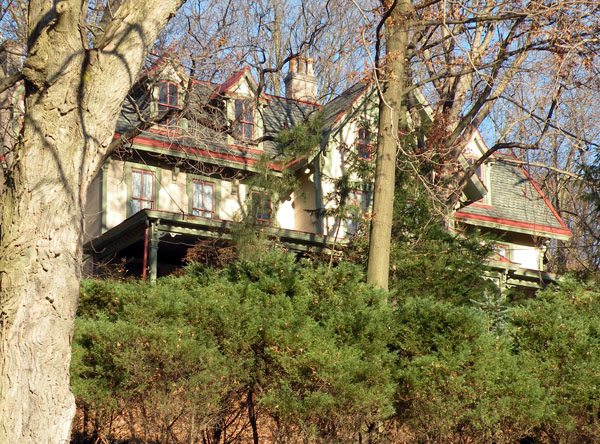 Picture of Elmridge (or Elm Ridge, or James Gardiner Coffin House, or John Walker House) located at the corner of Beaver Street and Camp Meeting Road in Leetsdale, Pennsylvania, on November 14, 2009. The house was built around 1869, and is listed on the National Register of Historic Places. Architect: Isaac Hobbs. Builder: David Kerr. Plan published in Hobbs Architecture, 1873. Architectural style: Italianate. The house is on private property with a sign that says "private drive, no trespassing". This picture was taken from Beaver Street. There are many trees in front of the house obstructing ones view of the property, even during the cooler months of the year. Nevertheless, one can see that it is a large, old house. If anyone manages to get a nicer picture, feel free to replace this image with a better one.